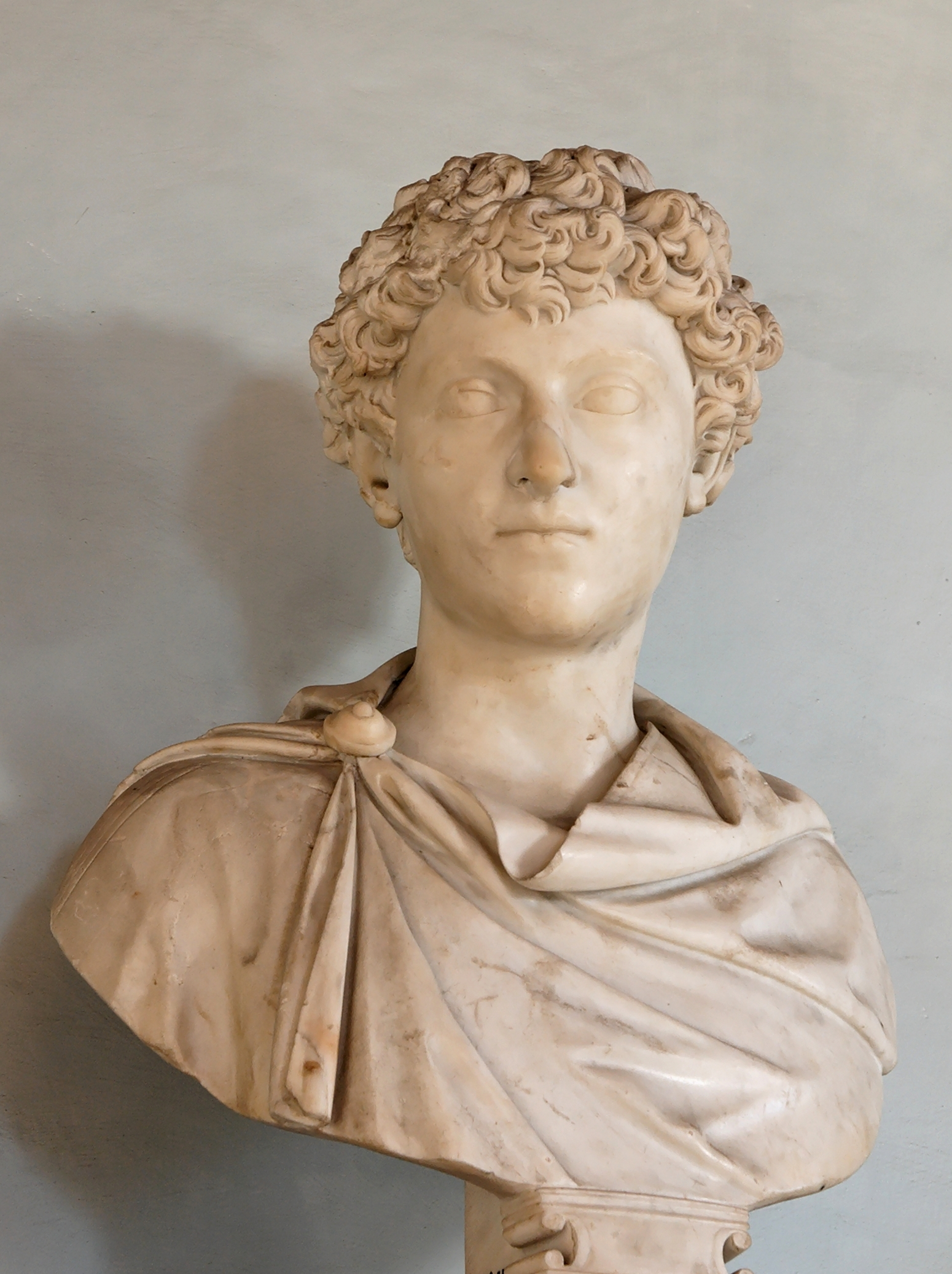 Portrait of Emperor Marcus Aurelius as a boy. Roman artwork.